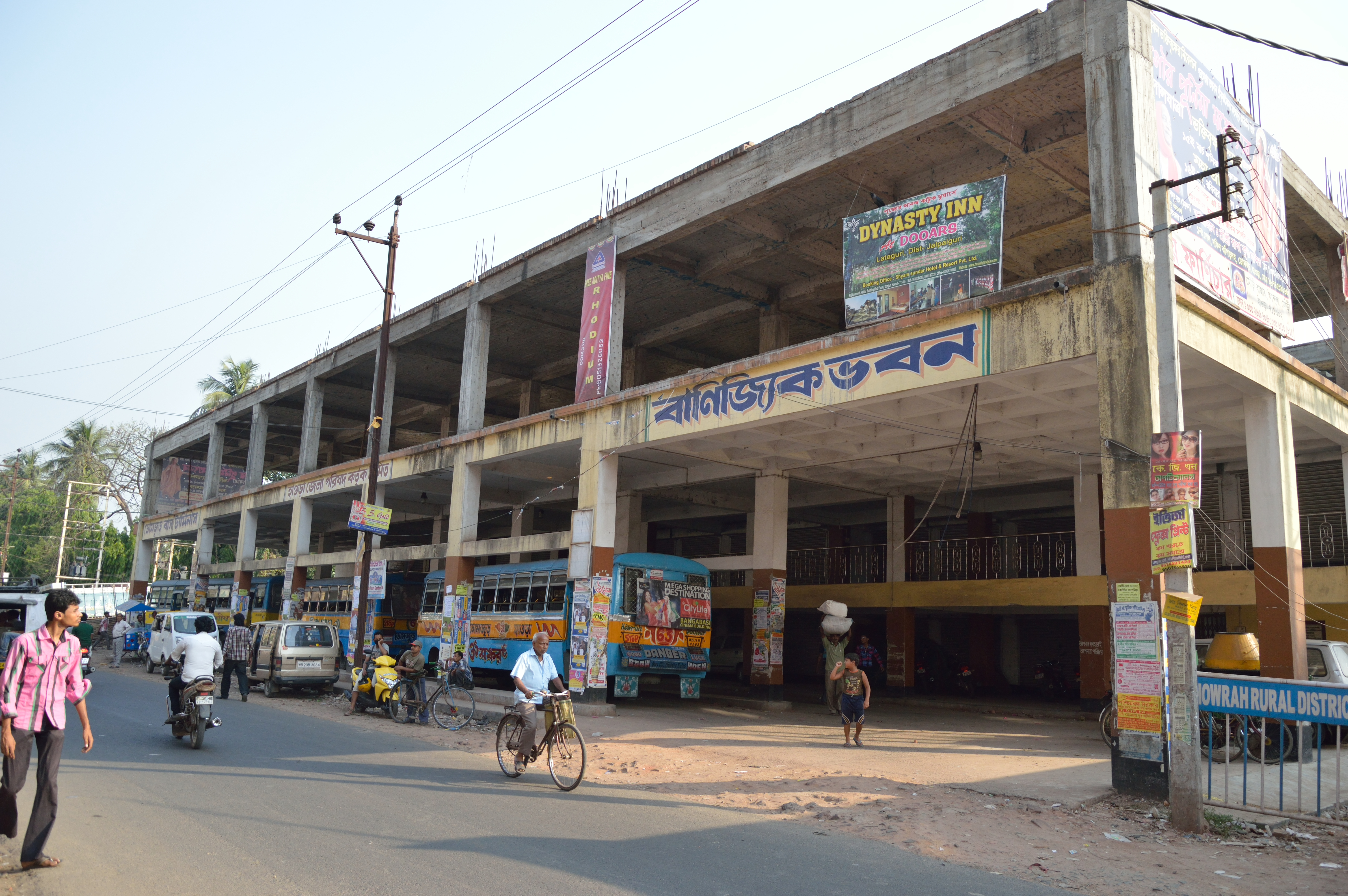 Photographed in Howrah, West Bengal, India.